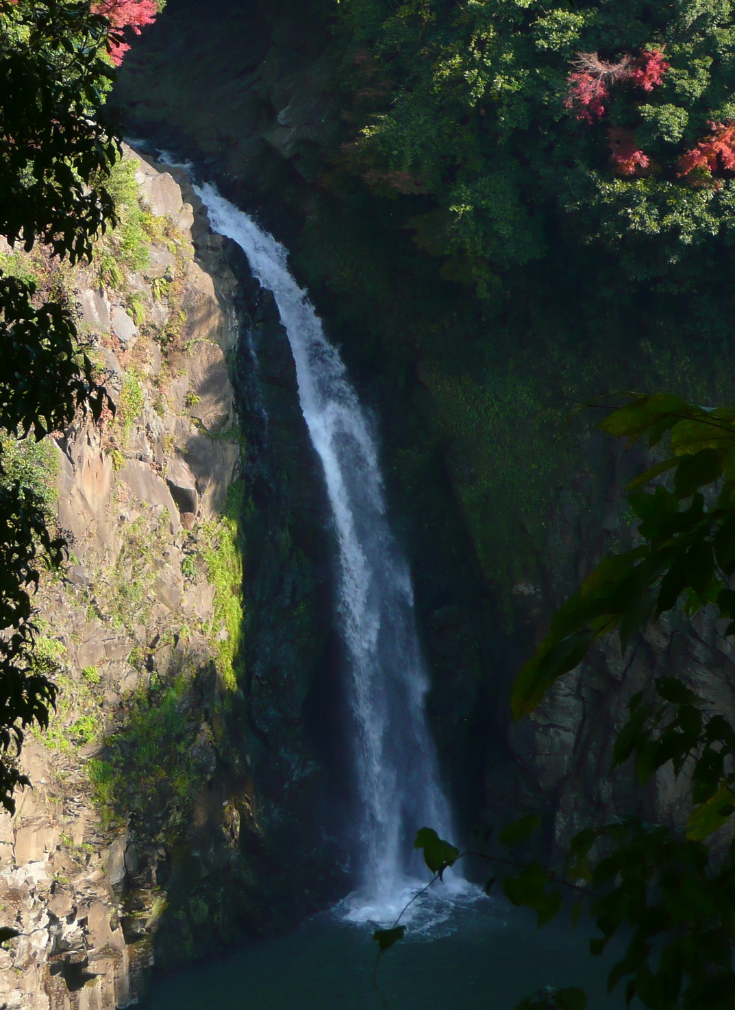 Sugaruga Waterfall in 2009 (Minamiaso Village, Kumamoto, Japan)